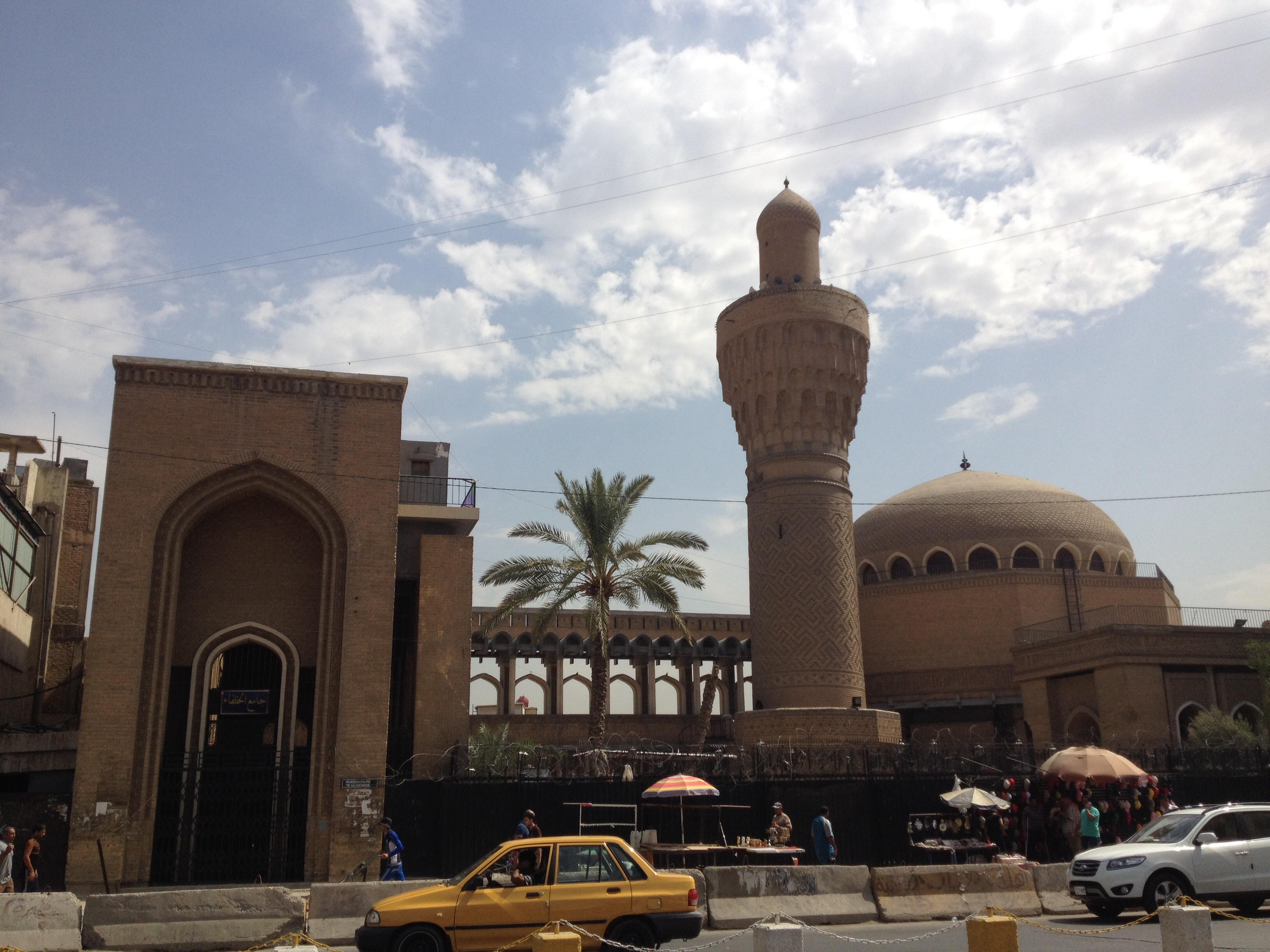 Masjid Al Khulafa' (The Caliph's Mosque) in Baghdad